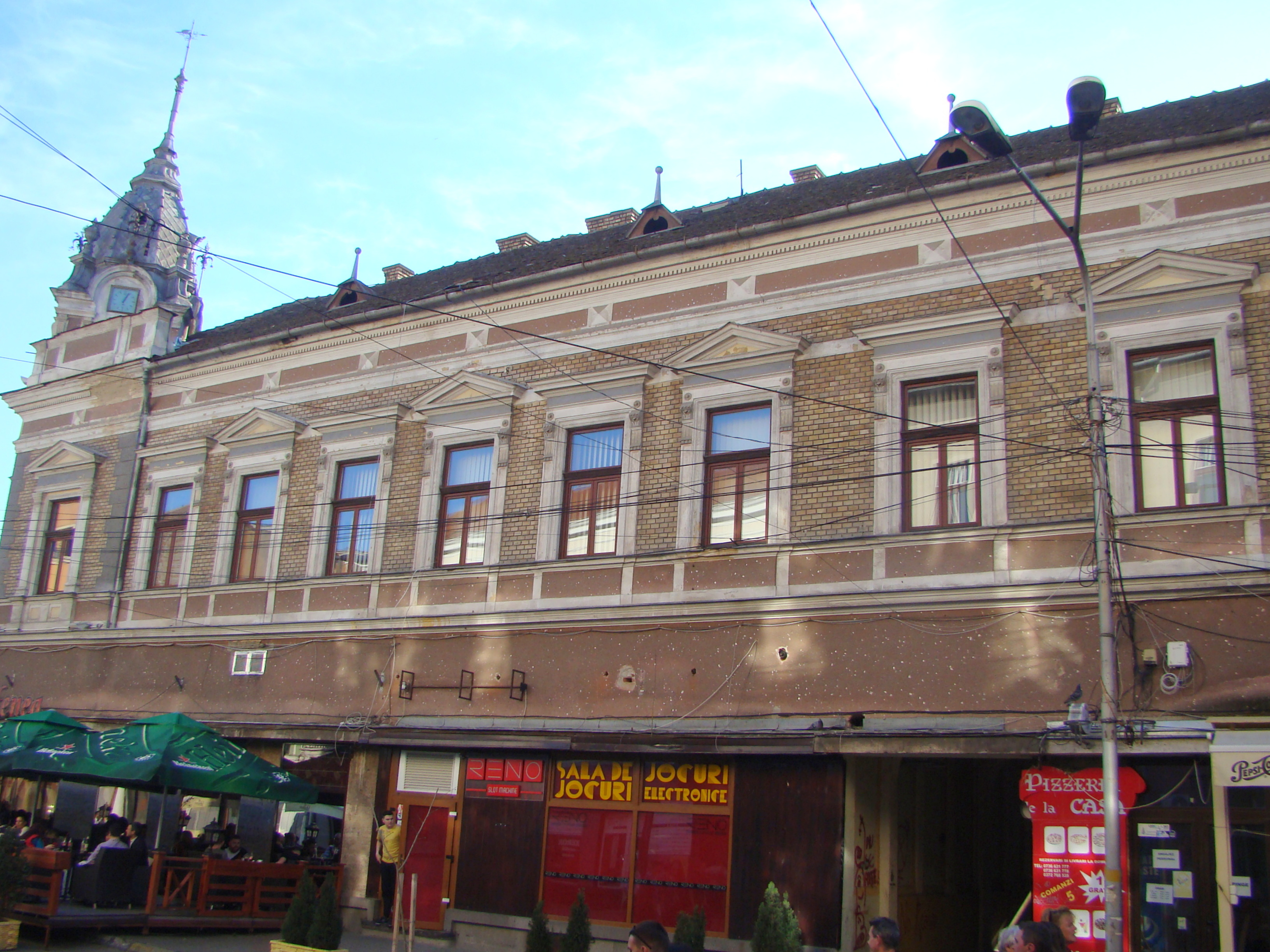 Former Orient Hotel in Deva, Hunedoara county, Romania